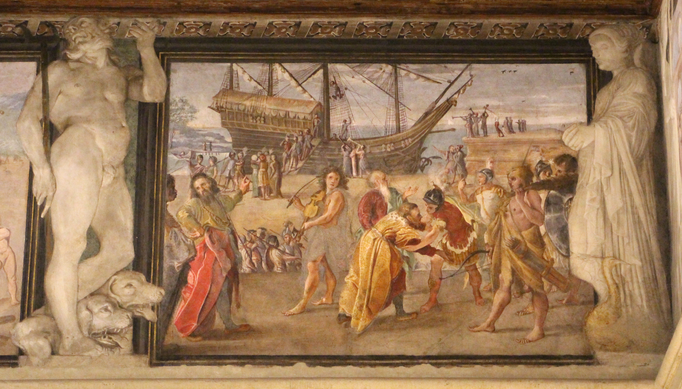 Frieze of Jason and Medea